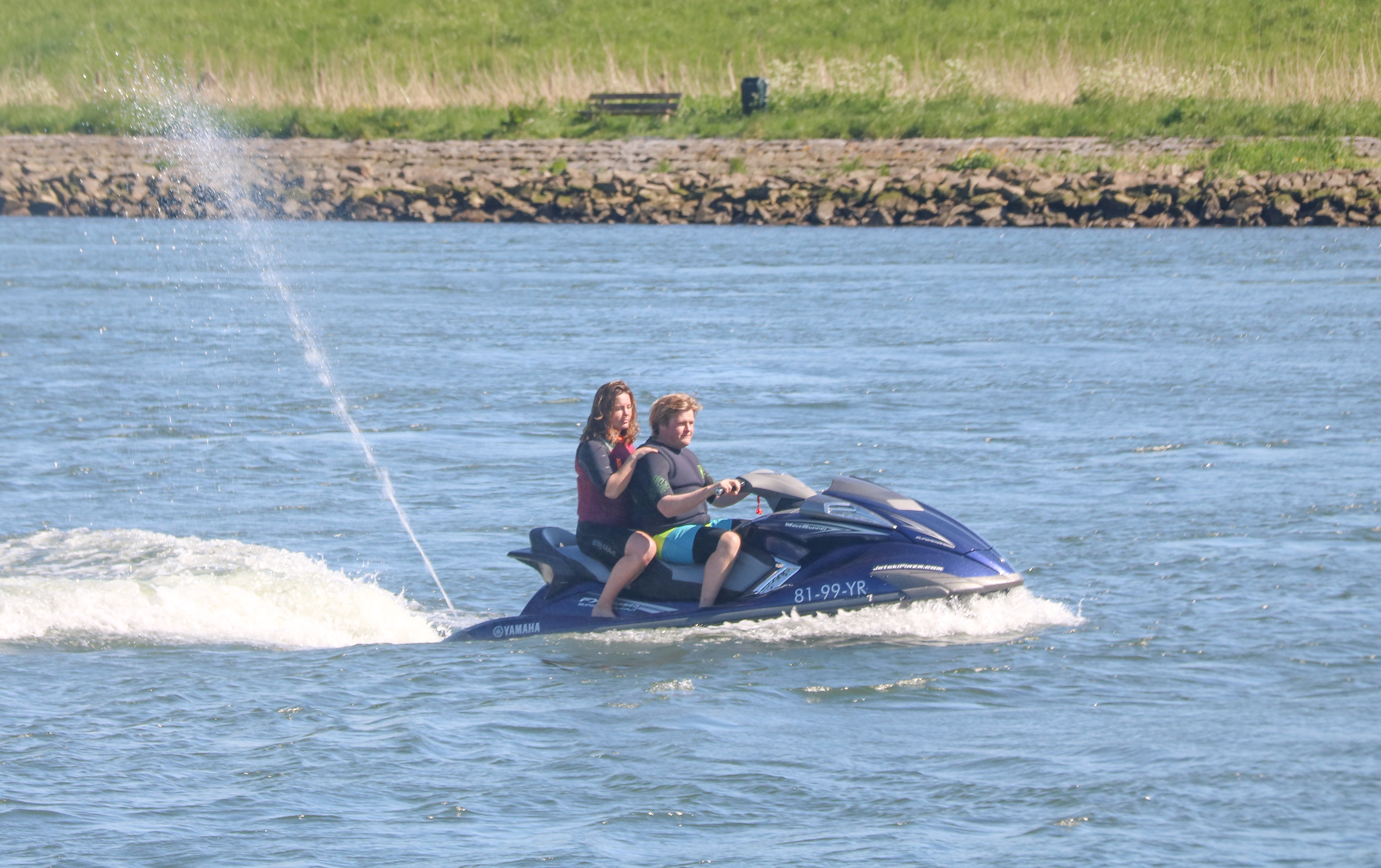 Couple on a jet ski in the spui at Hekelingen